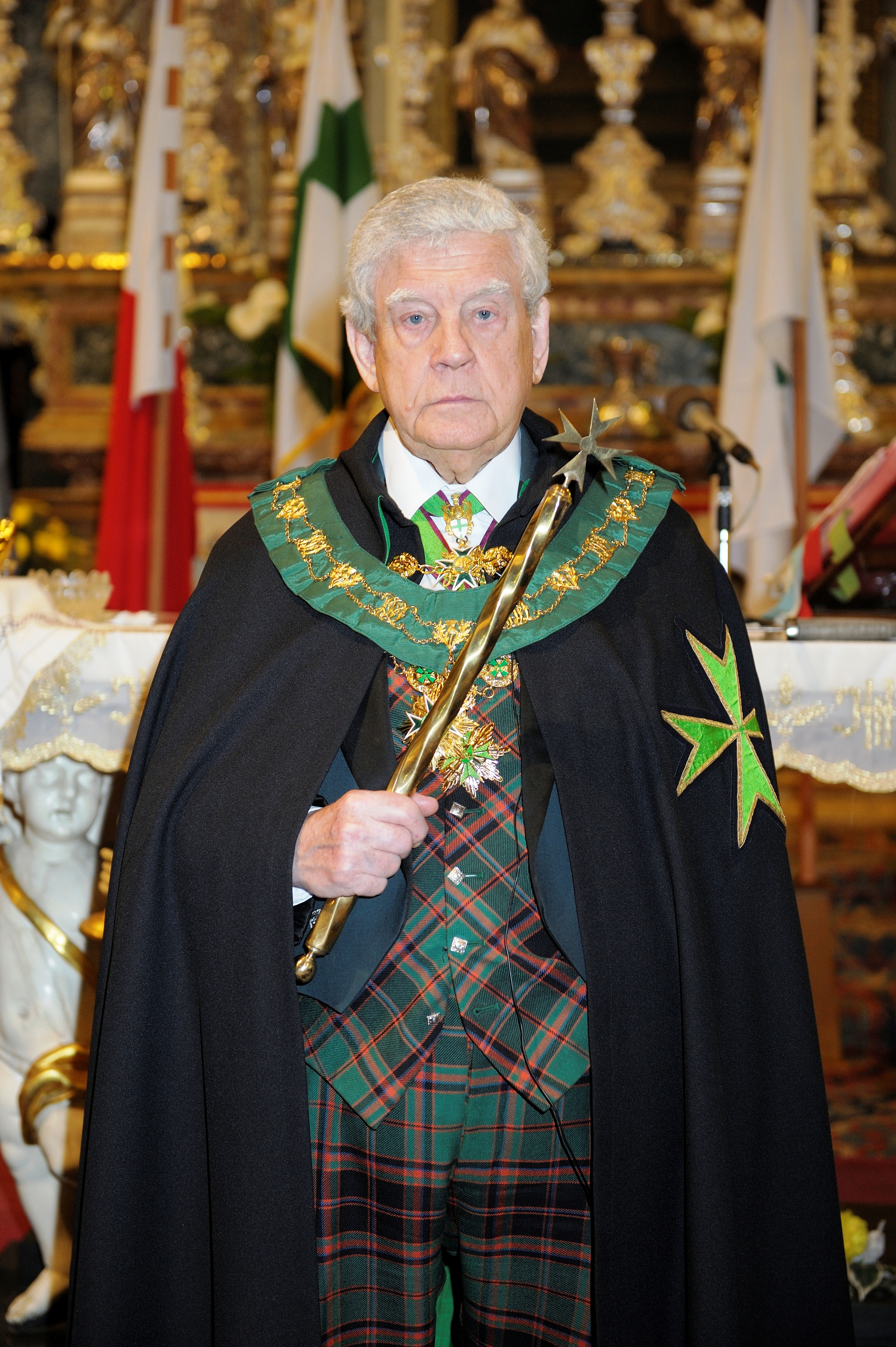 The Supreme Grand Prior of the Hospitaller Order of Saint Lazarus of Jerusalem